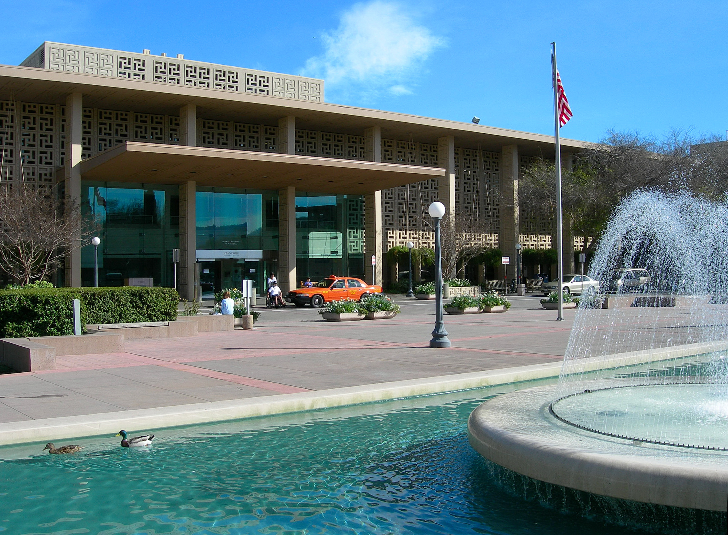 Stanford Medical Center, Stanford, CA. Designed by Edward Duell Stone, 1955.